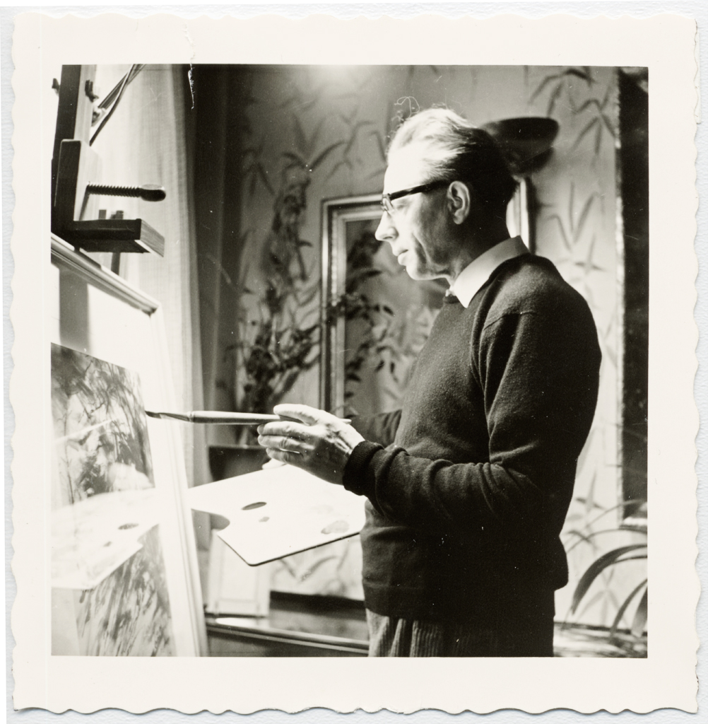 Lucas Mahrenbrand painting.